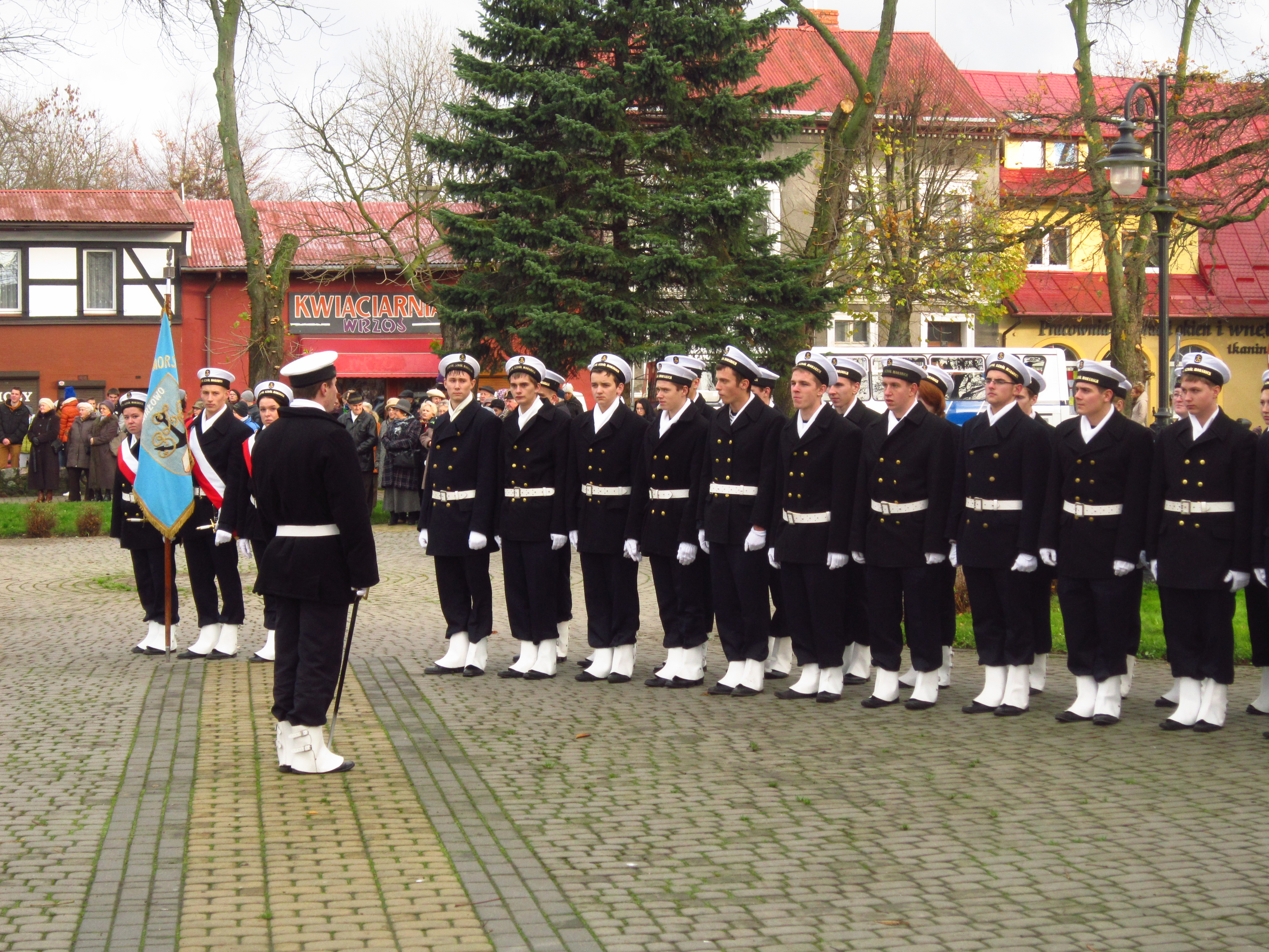 Independence Day 2013 in Darłowo, celebration on Piłsudski square by the Monument of Tousand Anniversary of Polish Country. Here: honor company of Maritime School in Darłowo.